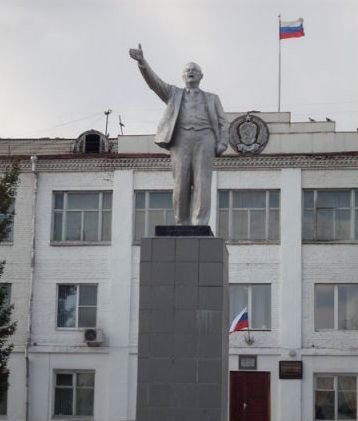 V.I. Lenin monument in Uyar town. In the background, a building with the emblem of the RSFSR - the Administration of the Uyarsky District (Lenin st., 85)